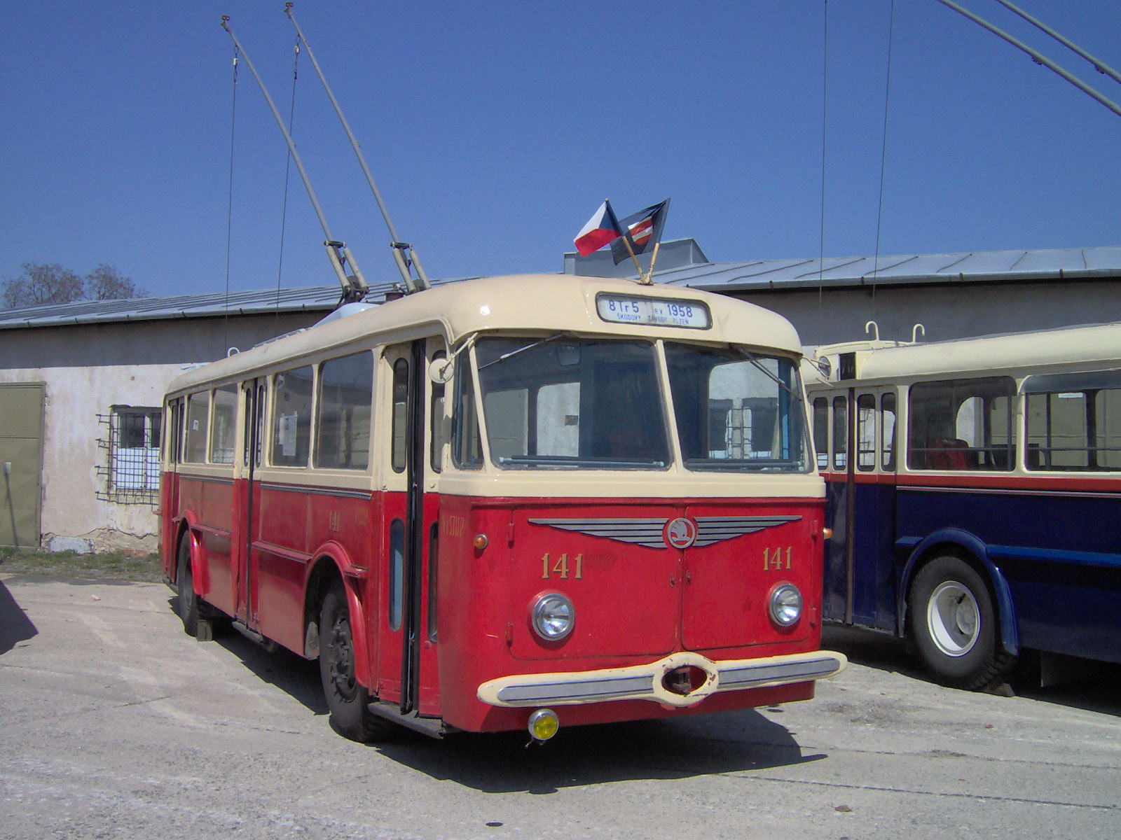 Historical trolleybus Škoda 8Tr in Brno, Czech Republic